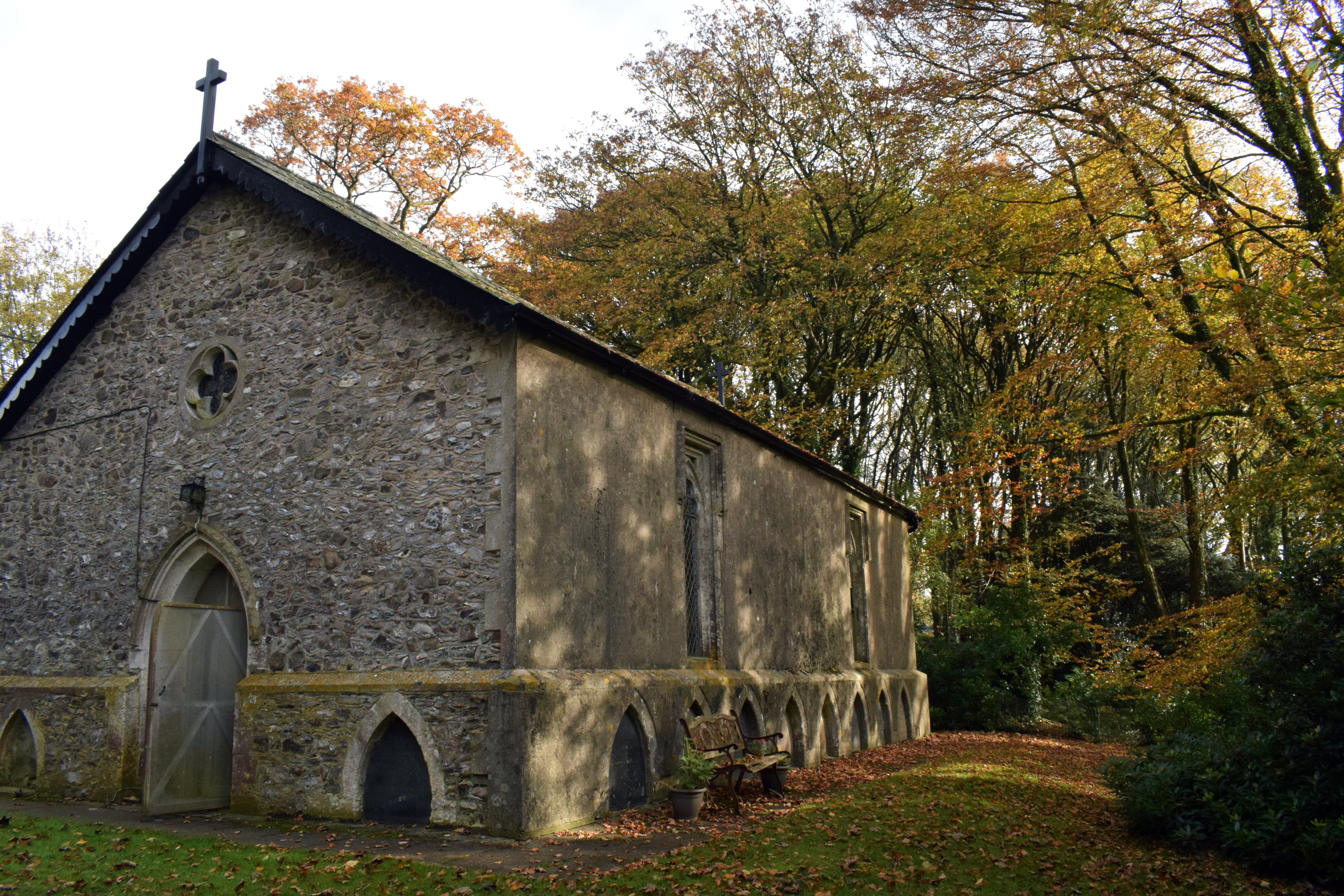 Wolford Chapel Wikidata has entry Q8030176 with data related to this item.